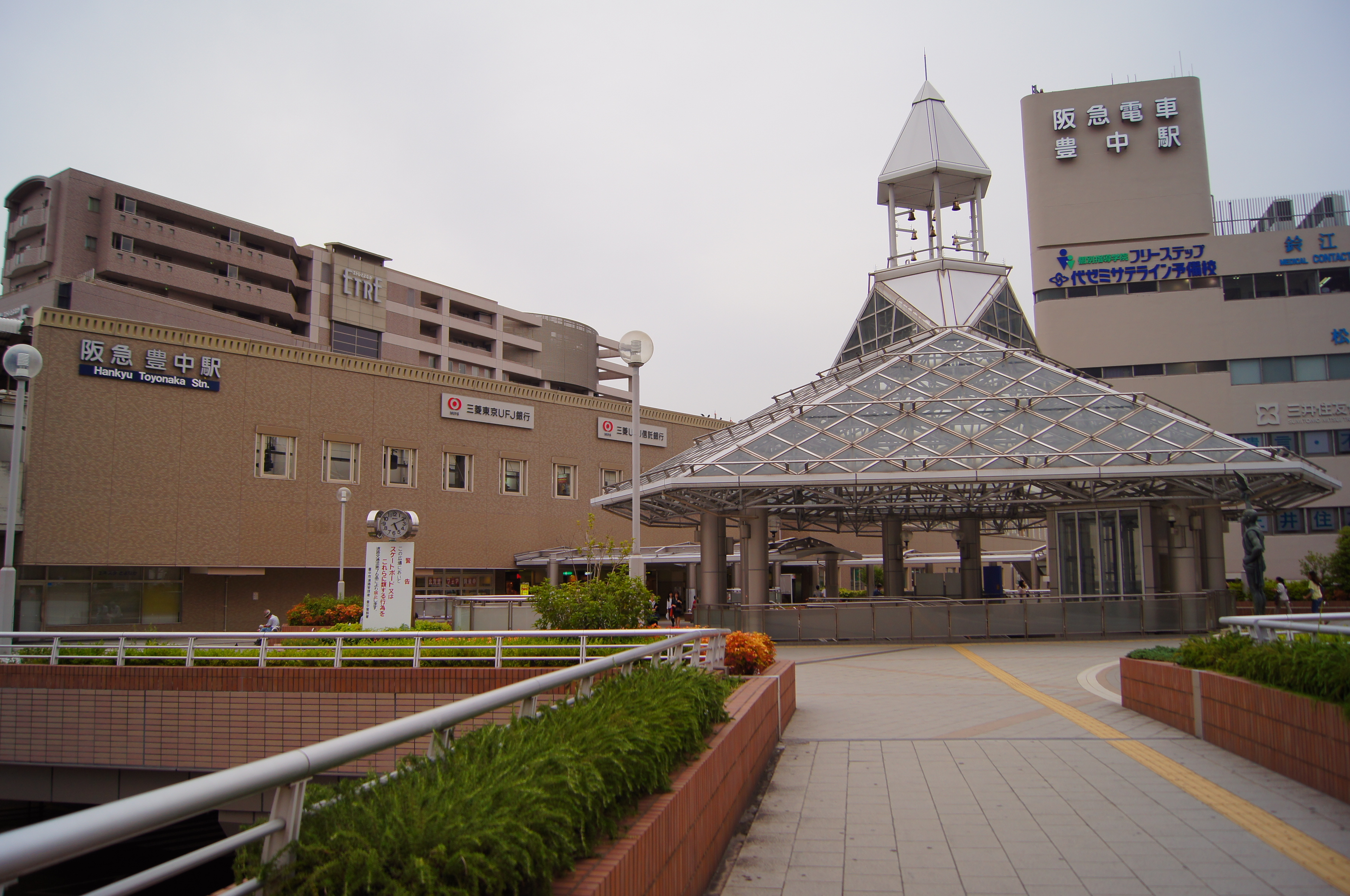 Toyonaka Station Front exit